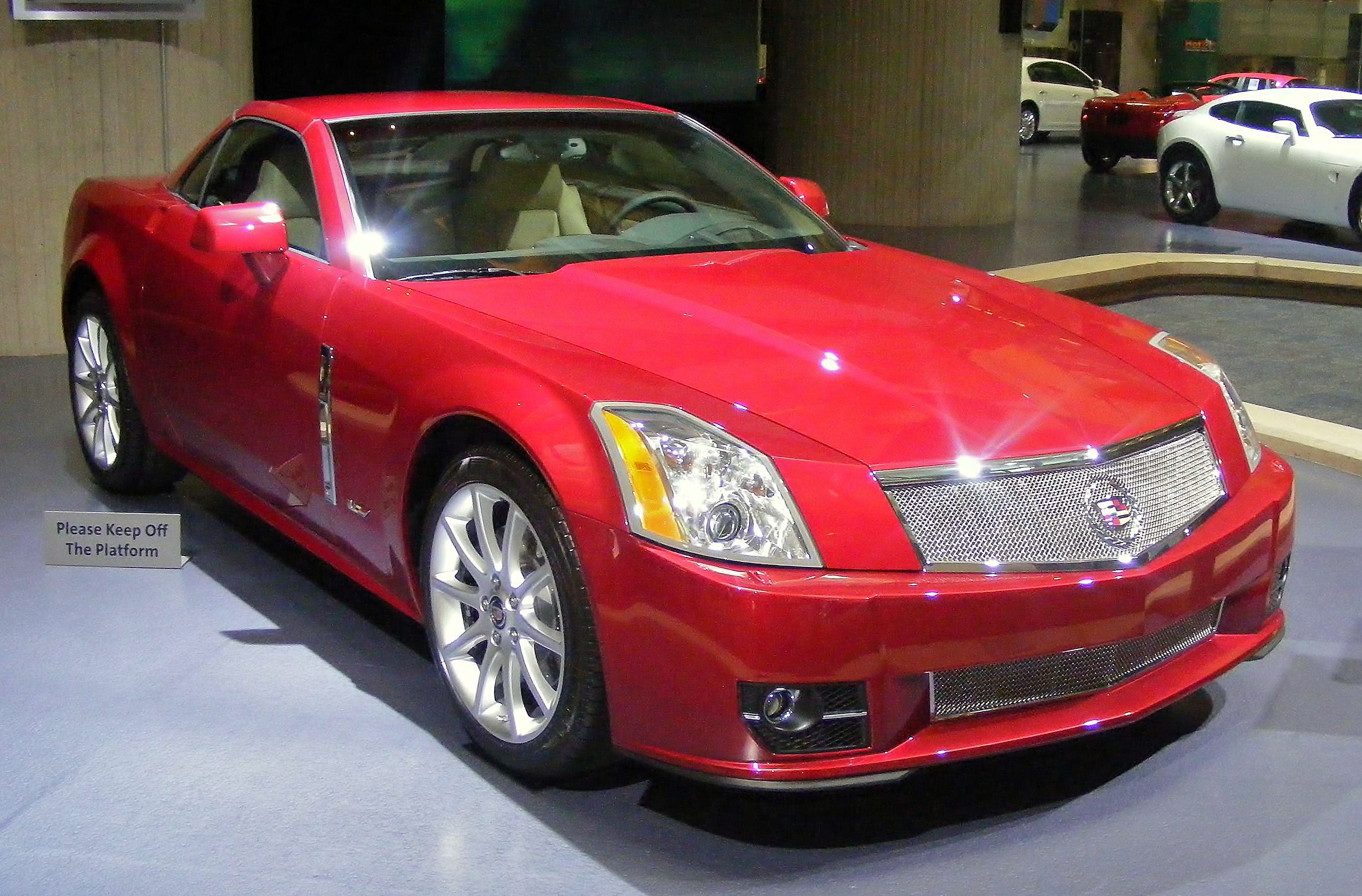 Crystal red Cadillac 2009 XLR-V. Shot taken in GM Renaissance Center, Detrioit, MI